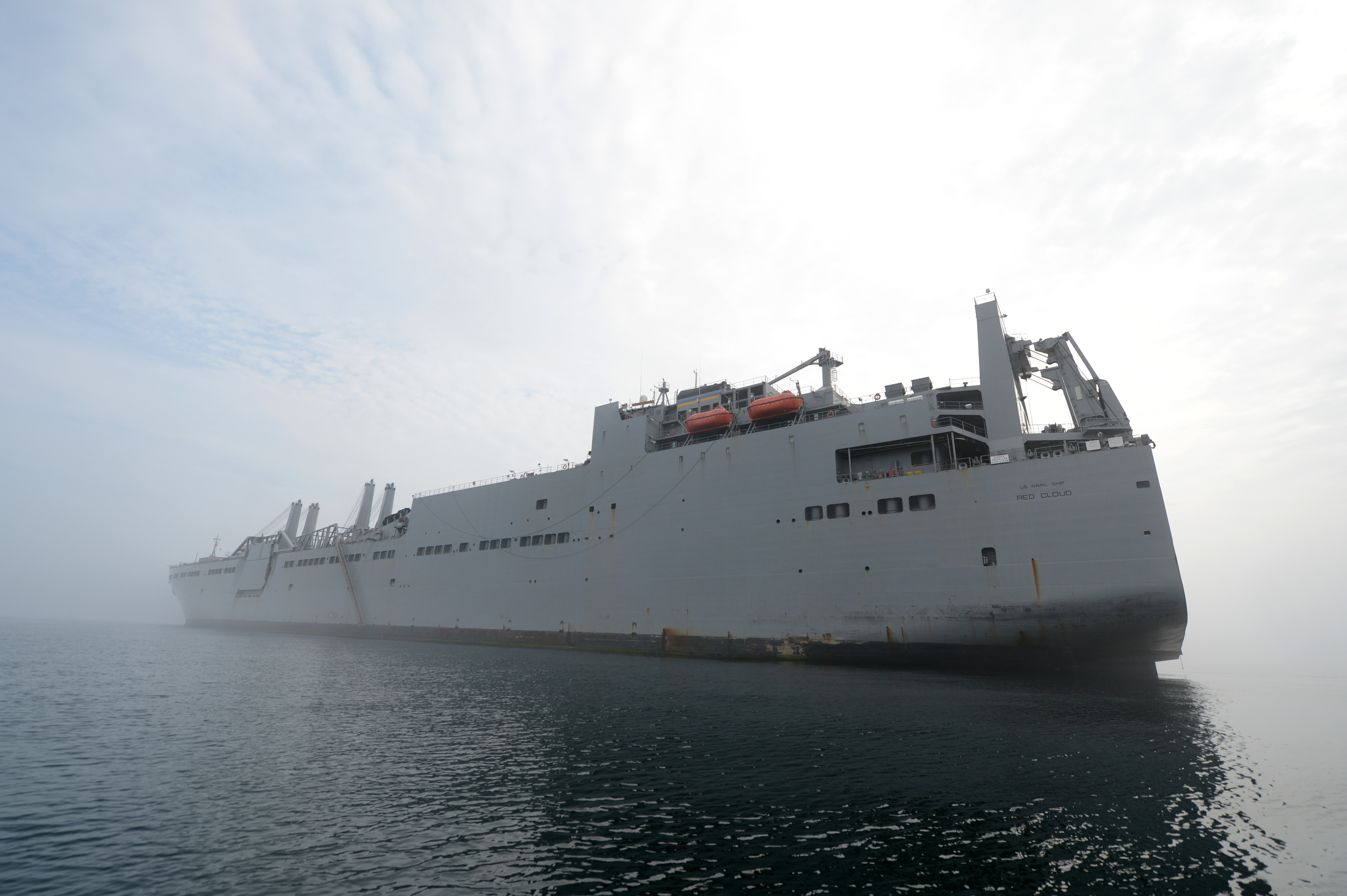 ANMYEONDO BEACH, Republic of Korea The Military Sealift Command large, medium-speed roll-on/roll-off ship USNS Red Cloud (T-AKR 313) participates in Combined Joint Logistics Over-the-Shore (CJLOTS) 2015 at Anmyeon Beach, Republic of Korea. CJLOTS 2015 is an exercise designed to train U.S. and Republic of Korea service members to accomplish vital logistical measures in a strategic area while strengthening communication and cooperation in the U.S.-ROK alliance.